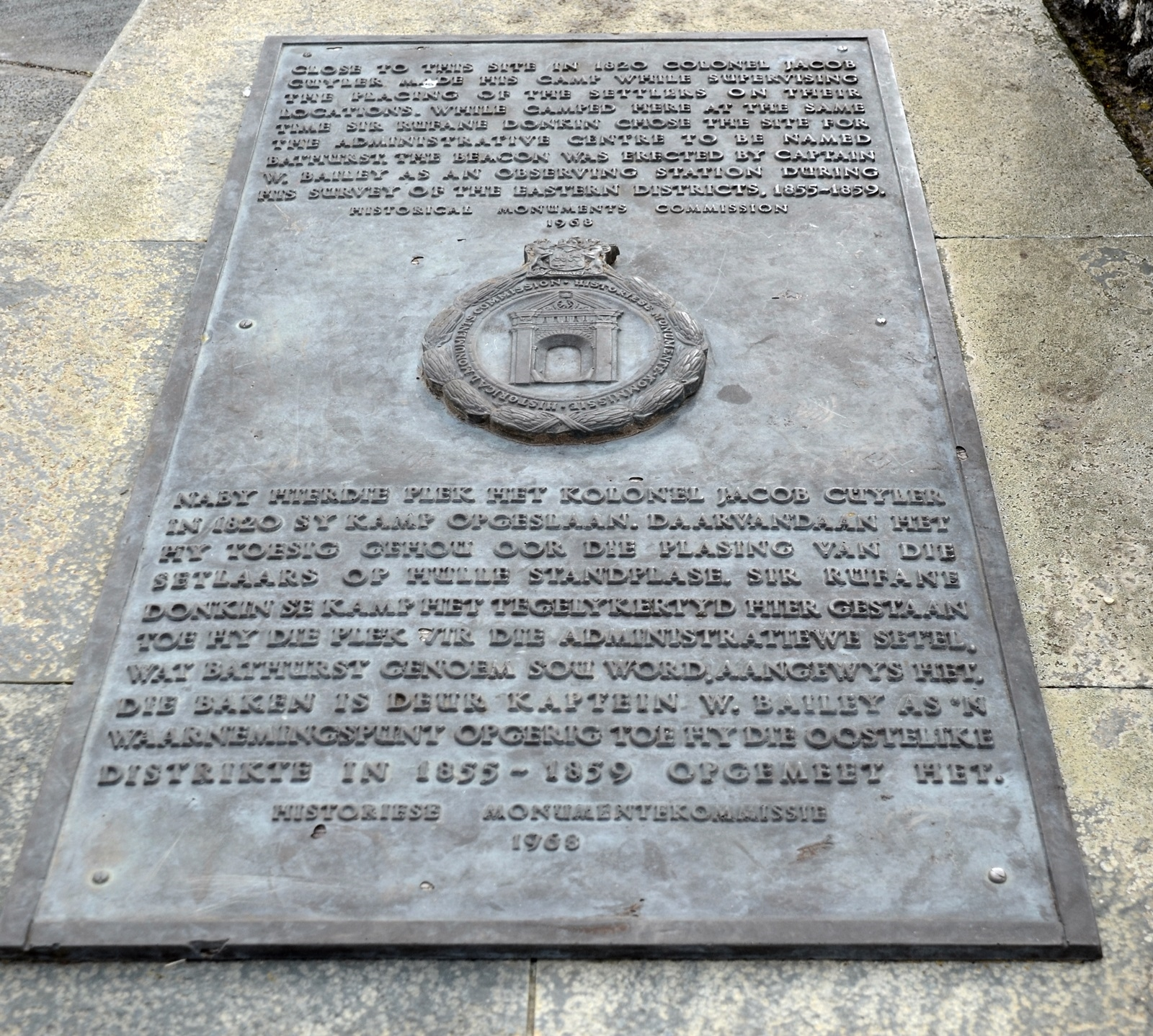 Type of site: Memorial, Beacon Col. Jacob Cuyler's camp stood on this site when he supervised the settlement of the 1820 Settlers on their allotments. The Governor, Sir Rufane Donkin also pitched his camp here when he determined the site of the town of Bathurst. This media shows a South African Protected Site with SAHRA file reference 9/2/009/0024.